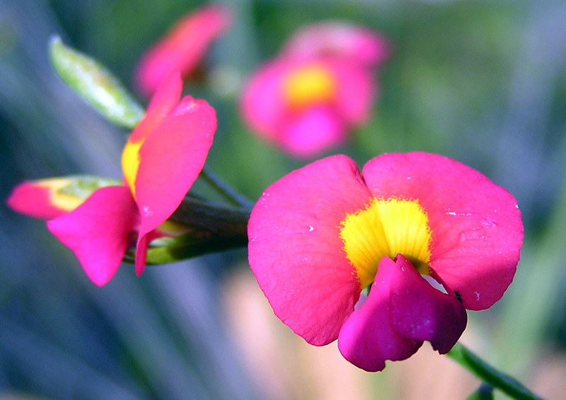 Yellow eye flame pea